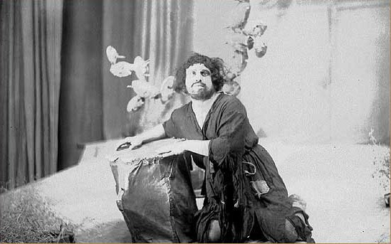 Stage from the opera Leyla and Majnun (1908) by Uzeyir Hajibeyov